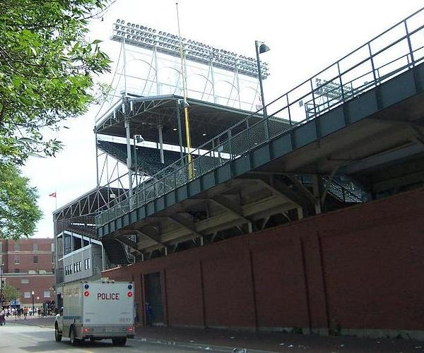 I took this photo at Wrigley Field in Chicago, Illinois on June 2, 2007. Exterior ivy is just barely visible, just starting to creep up the wall. 19:40, 9 June 2007 . . Baseball Bugs . .600 x 500 (110,062 bytes)